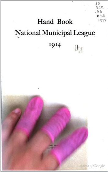 Hand digitization Note from uploader: If there is a problem with copyright or other issues I am happy to have this image deleted or moved to Wikipedia if others find it useful. Thank you.